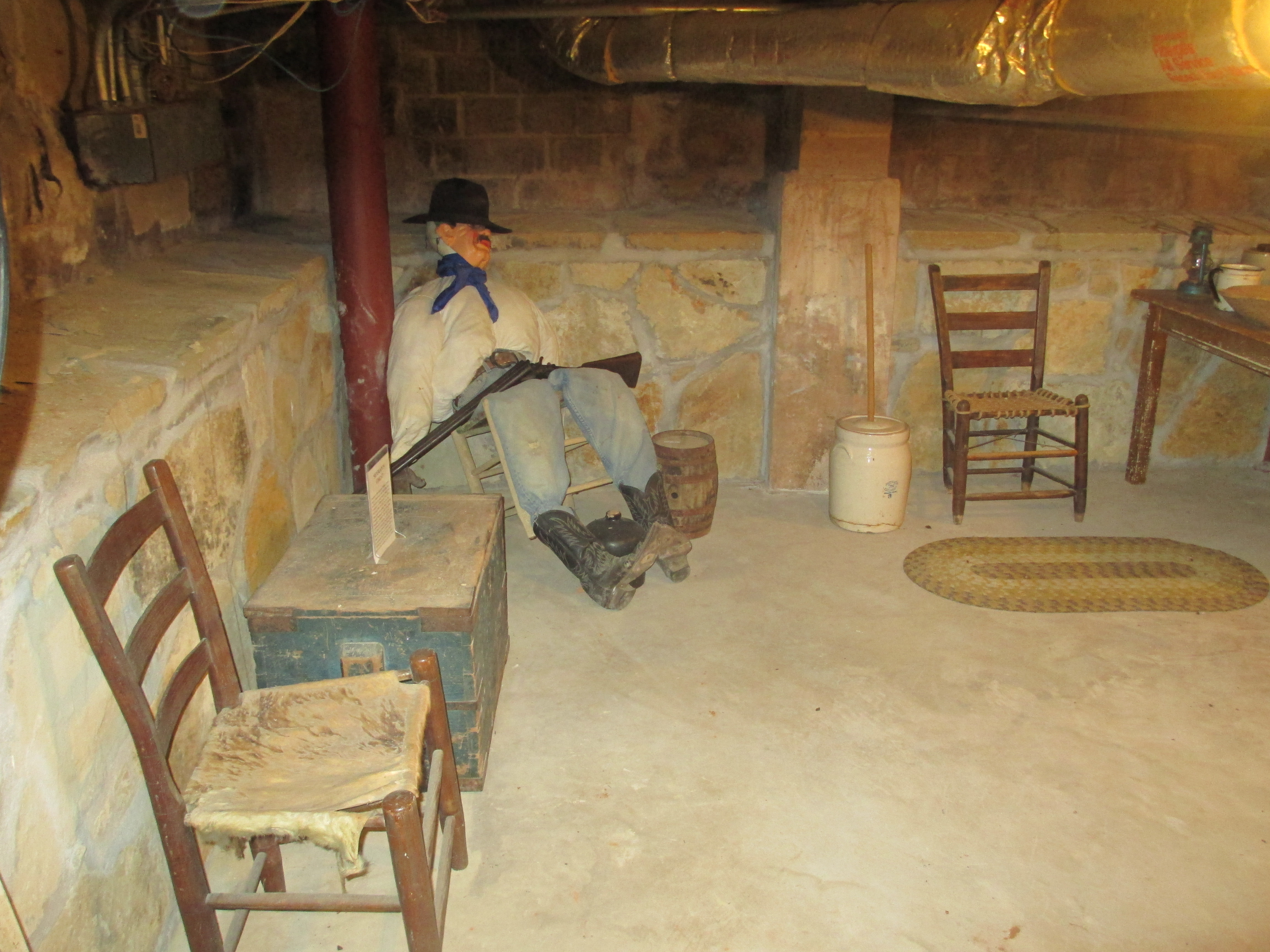 I took photo of sleeping guard exhibit at Clay County 1890 Jail Museum in Henrietta, TX, with Canon camera, April 4, 2013. Billy Hathorn (talk) 20:17, 11 April 2013 (UTC)